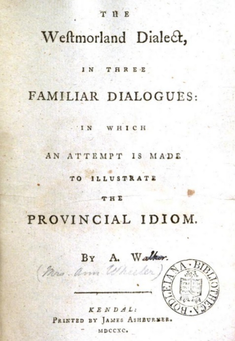 Agnes Wheeler or Ann Coward (bap. 1734 – 1804) was a British writer on the Cumbrian dialect. She is known for one book published in 1790. The Westmoreland dialect in three familiar dialogues, in which an attempt is made to illustrate the provincial idiom. was an early attempt at recording the local dialect